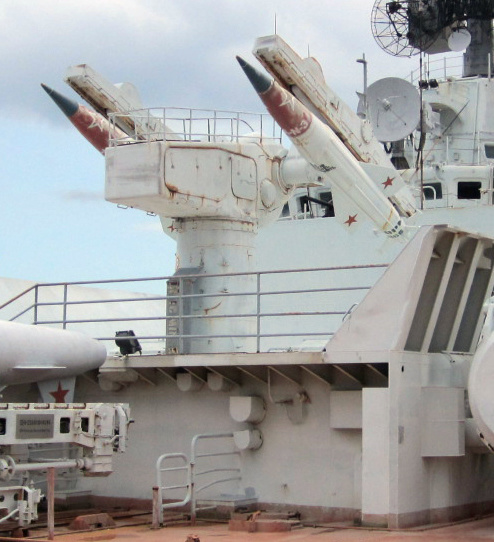 Launcher and replica missiles for the M-11 Shtorm surface-to-air missile system. On display at Minsk World in Shenzhen, China.